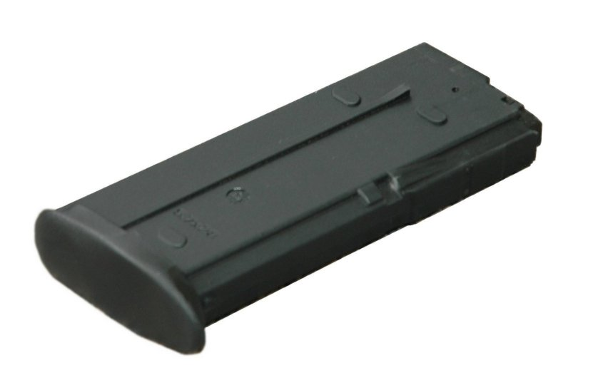 Standard 20-round magazine used by the FN Five-seveN pistol.